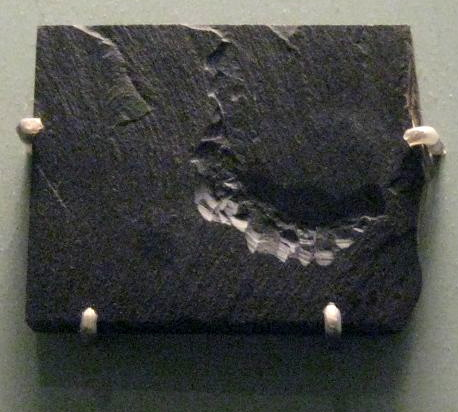 Amiskwia sagittiformis specimens from the Burgess Shale, British Columbia, Canada.